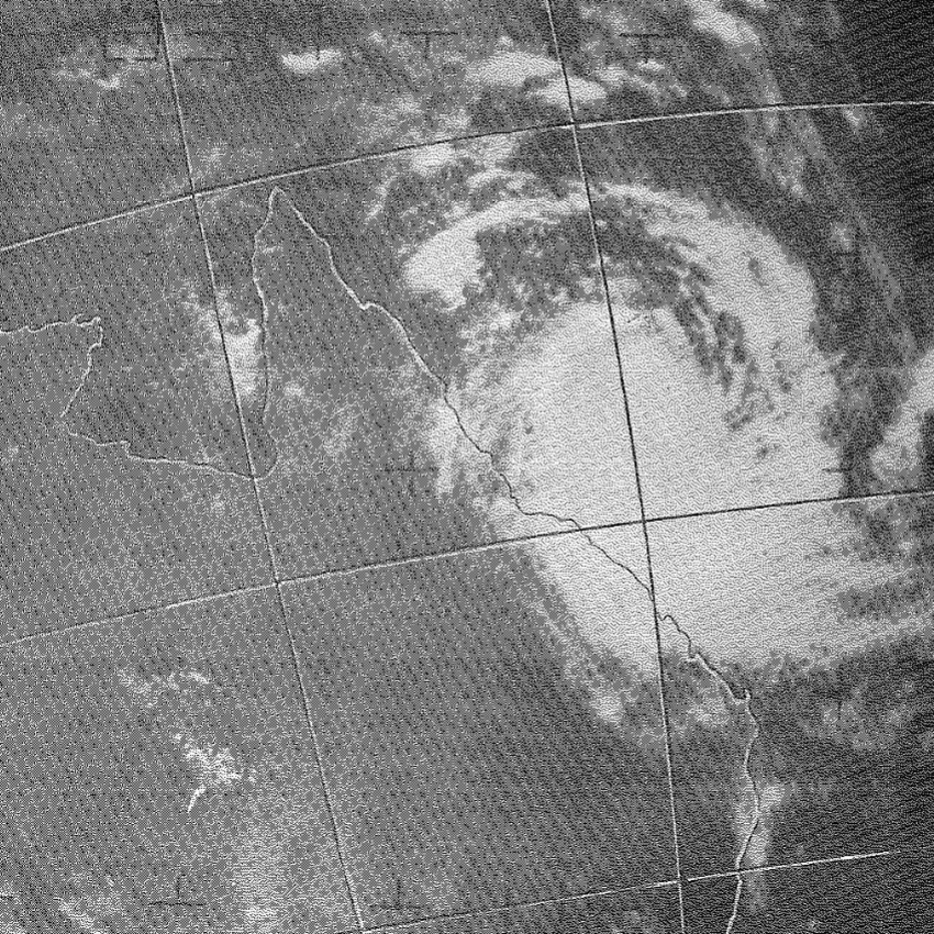 ESSA-8 satellite image of Cyclone Althea off the coast of Queensland, around 00:00 UTC on 23 December 1971.